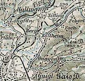 3rd Military Mapping Survey of Austria-Hungary - Salzburg ; detail: Söllheim (Berg/Esch/Zilling)